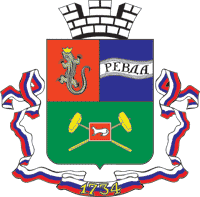 Revda (Sverdlovsk oblast), coat of arms